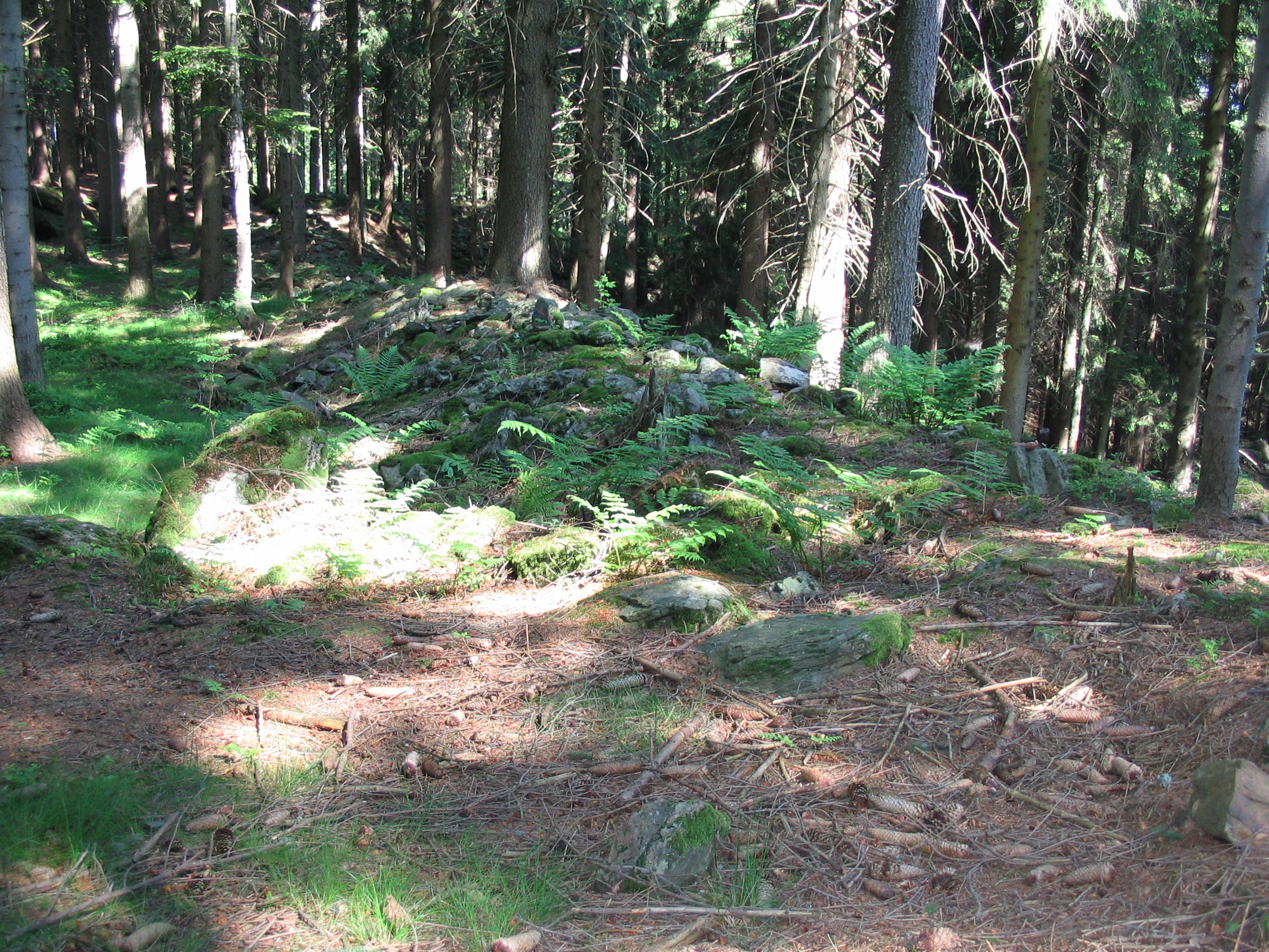 Part of celtic oppidum on Sedlo, Klatovy District, Czech Republic